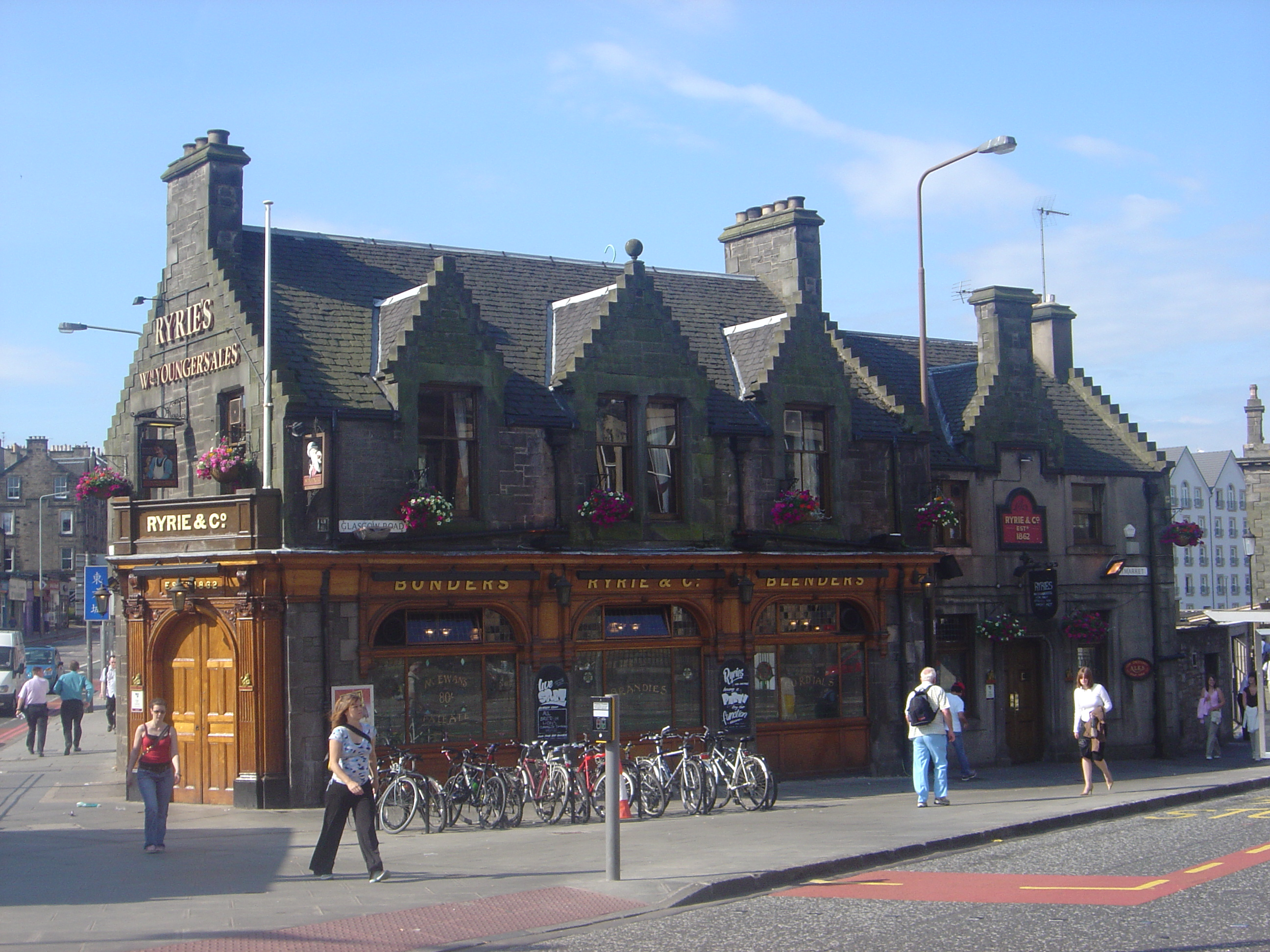 Ryries Bar, a pub near Haymarket, Edinburgh, Scotland